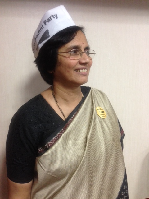 File photo of Nina Nayak, former chairperson of the Karnataka State Council for Child Welfare, and Aam Aadmi Party's Lok Sabha candidate from the Bangalore South constituency. source: personal communication (free license)